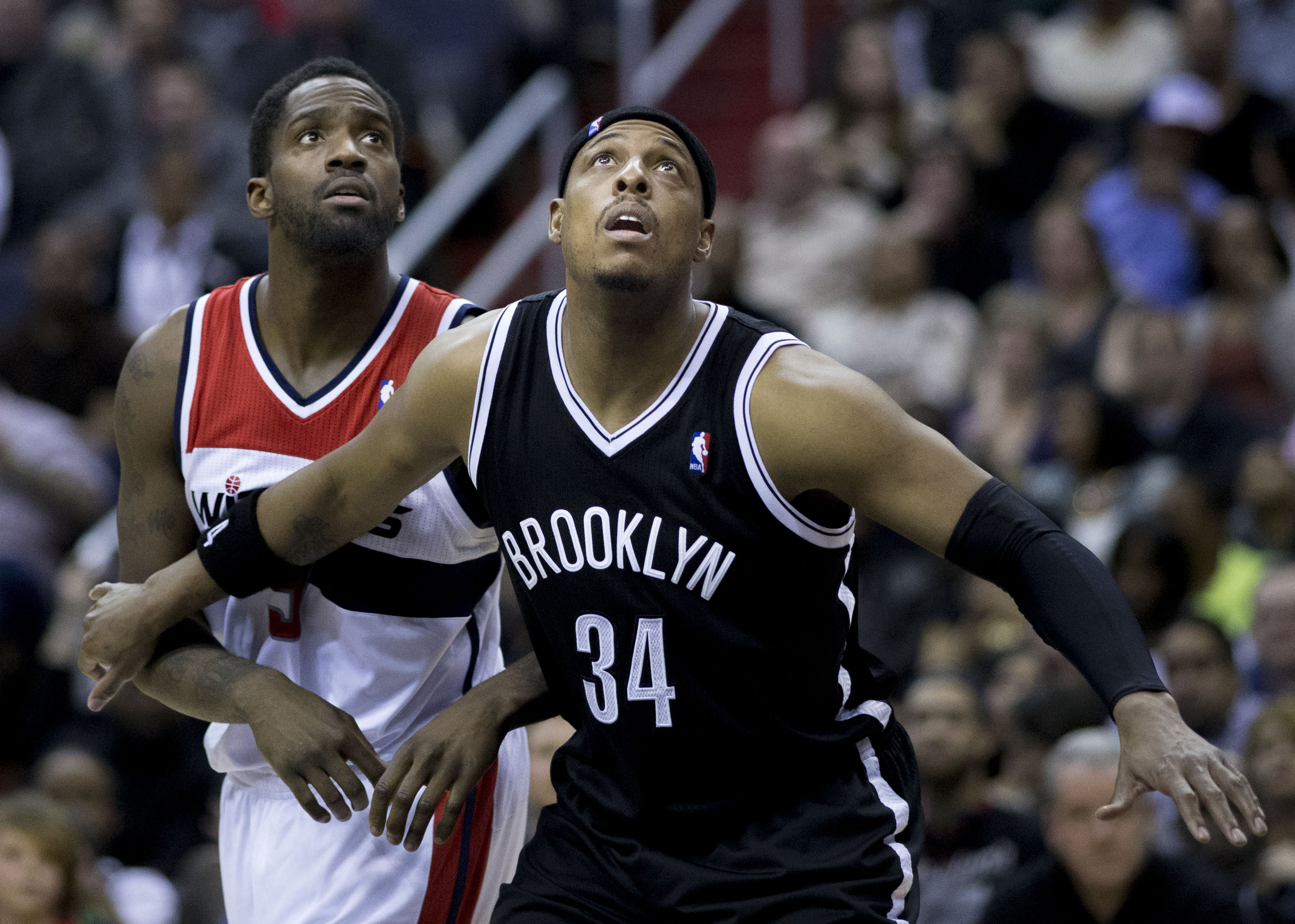 Paul Pierce #34 of the Brooklyn Nets in a game against the Washington Wizards at the Verizon Center on March 15, 2014 in Washington, DC.